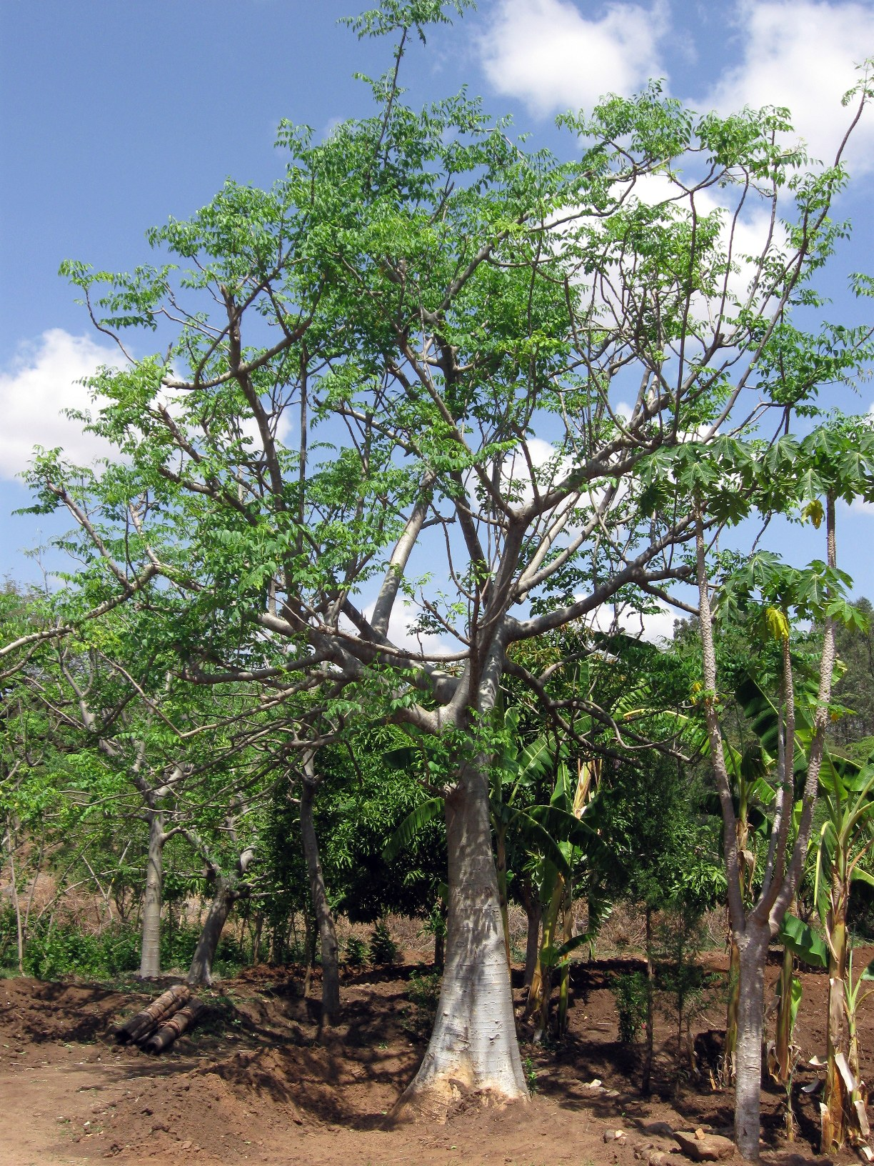 Moringa stenopetala is a native tree to Ethiopia and is an important, nutritious food source in some parts of the country. Trees for the Future and Greener Ethiopia are promoting income generation activities involving moringa leaf and seed processing and marketing in Konso, where it has been grown for generations. In Guraghe Zone, where it is not common, TREES and their partners are promoting it as an effective way to increase food security and household nutrition.